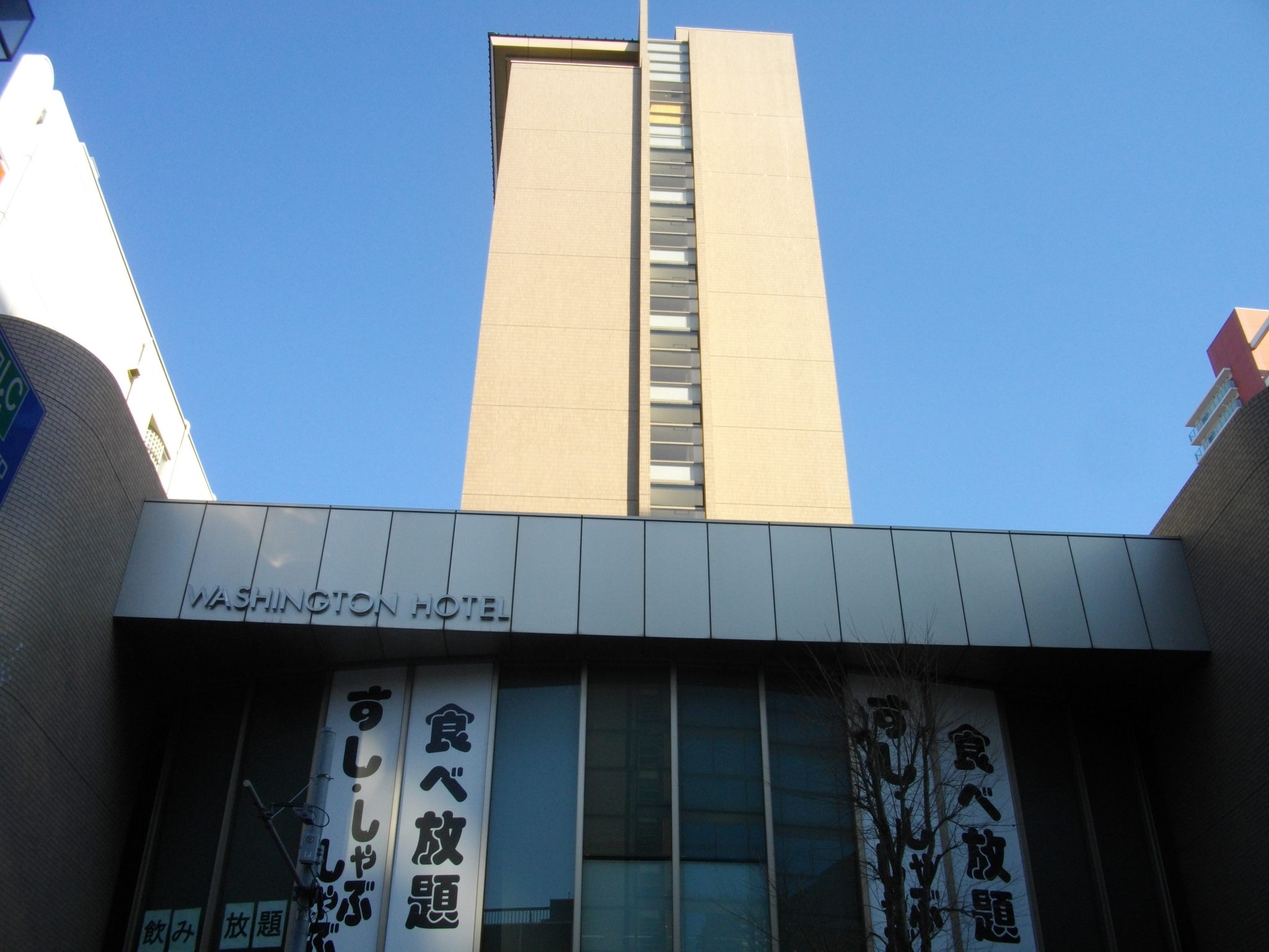 Urawa Washington Hotel